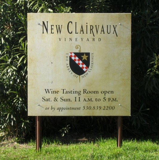 Wine tasting sign outside of New Clairvaux Abbey in Vina, California.